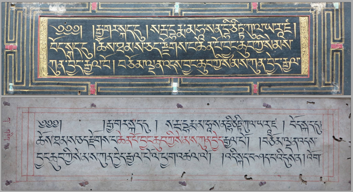 Front page of rnying ma rgyud 'bum. Mtsam brag manuscript of Atiyoga Tantra from Vol. 1